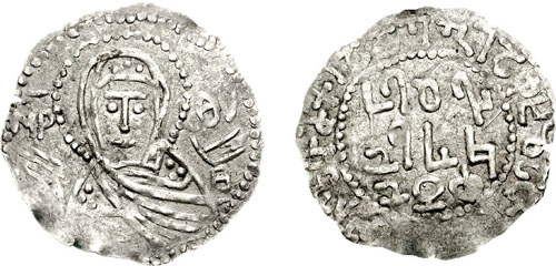 Kingdom. Giorgi II. 1072-1089. AR Dram (1.16 g, 5h). Struck 1081-1089. MHP QU, nimbate facing bust of the Virgin Mary, orans / Georgian – "+God preserve Giorgi, King of the Abkhazians and K'artl'i, Caesar", in margin and continuing in central field. Kapanadze 48; Dobrovolsky 7; Lang p. 20. VF, a bit weak on reverse.